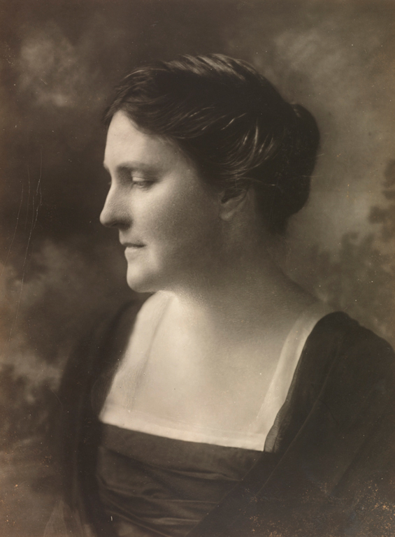 Photographic print of Mary Cooke Branch Munford (1865–1938) Late 19th C. 13.65 cm x 10.16 cm Mary Munford devoted her life to the improvement of public education in the South, to the advancement of women in higher education, and to the improvement of race relations. Image is head and shoulders only. On verso: "Mrs. B B Munford / Richmond Va"